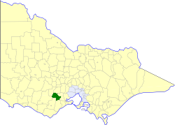 Location of the former Shire of Leigh within Victoria.